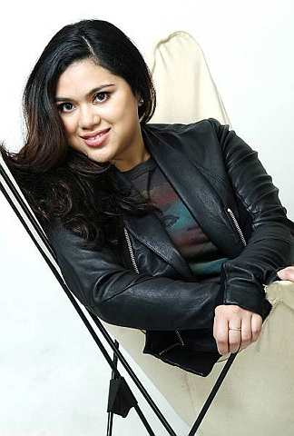 It is an photo image of Najwa Mahiaddin